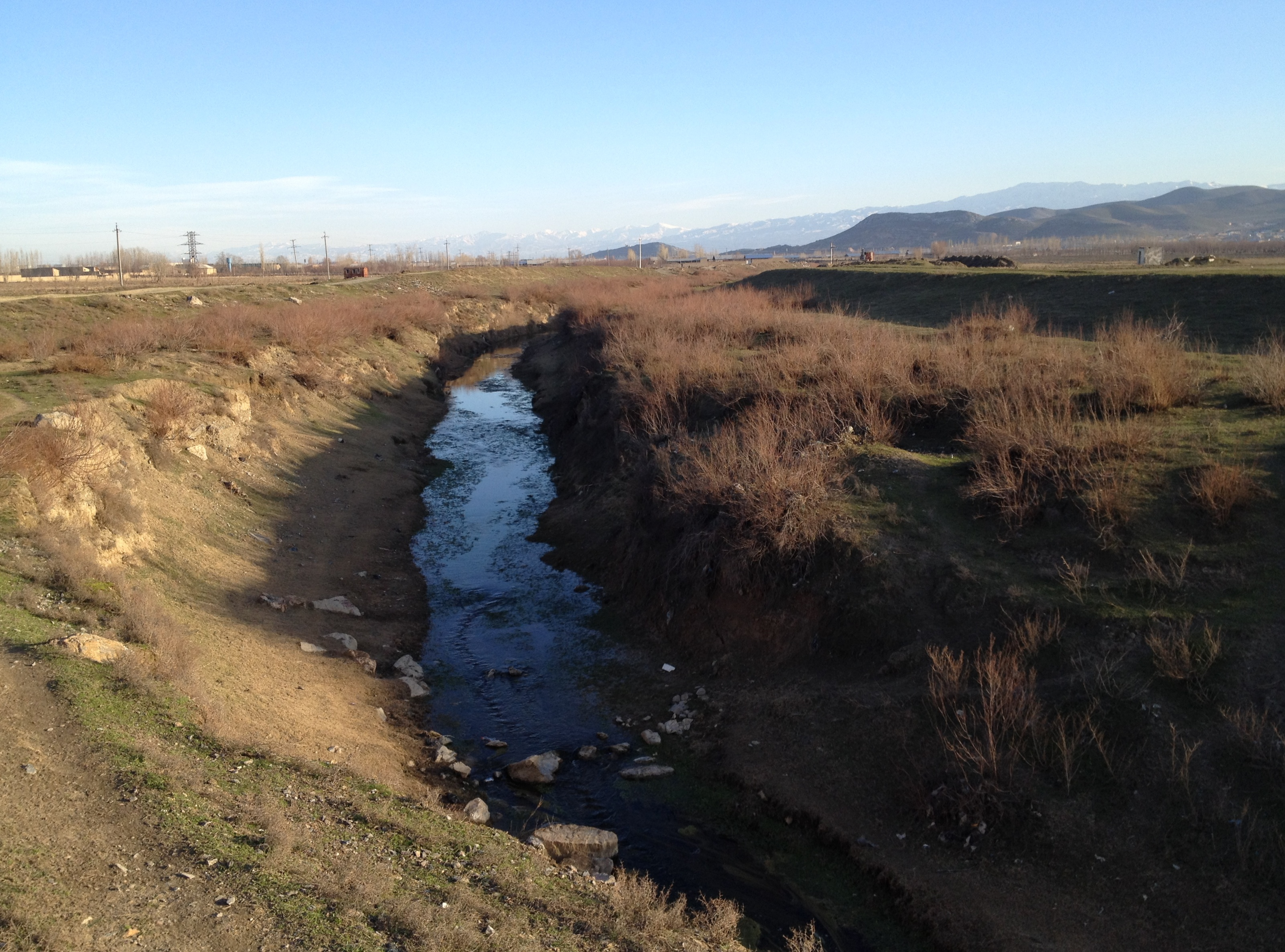 Sanzar river near Jizzakh city